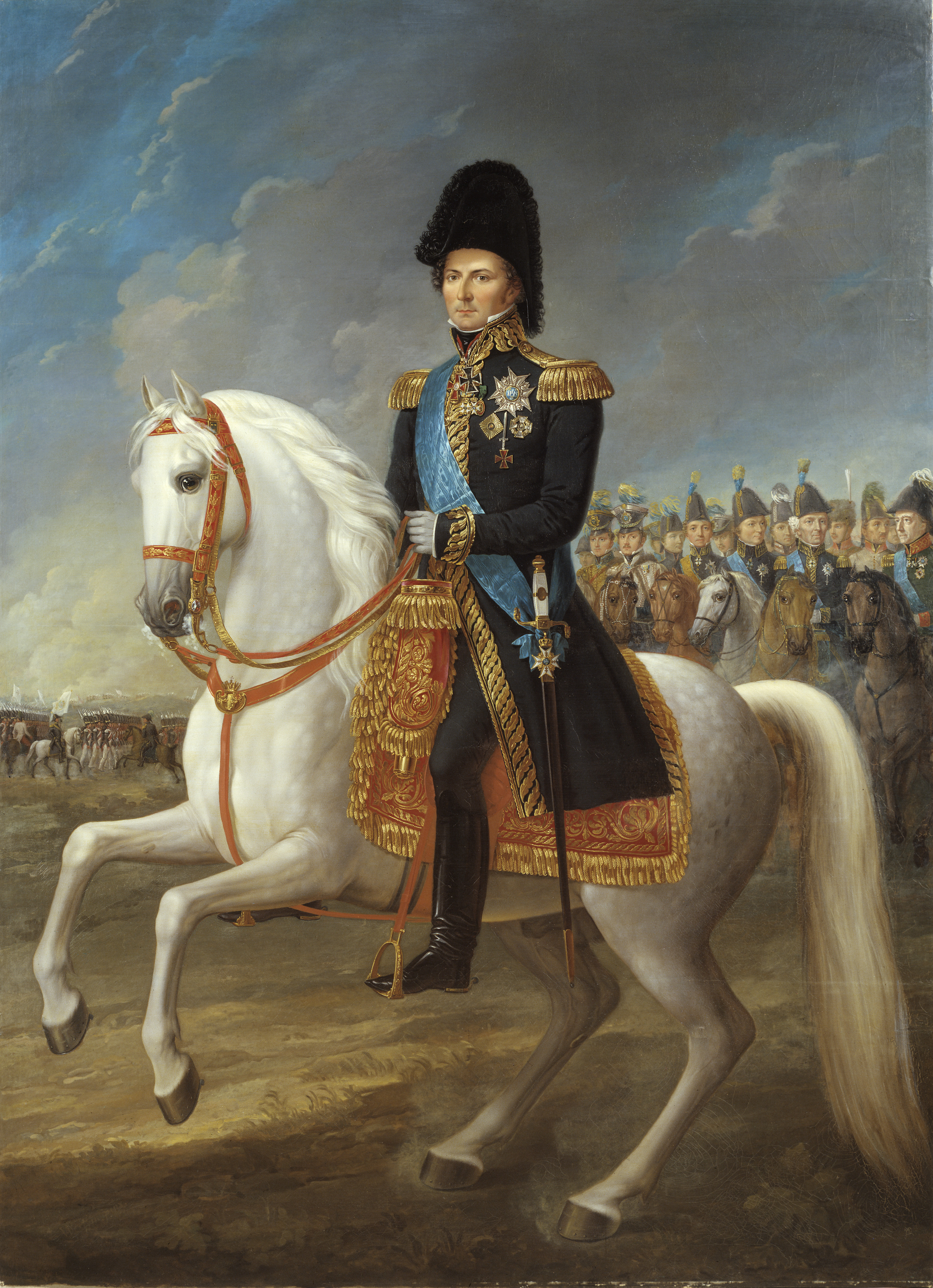 Karl XIV Johan, king of Sweden and Norway (1763-1844), as crown prince, entering Leipzig 1813.